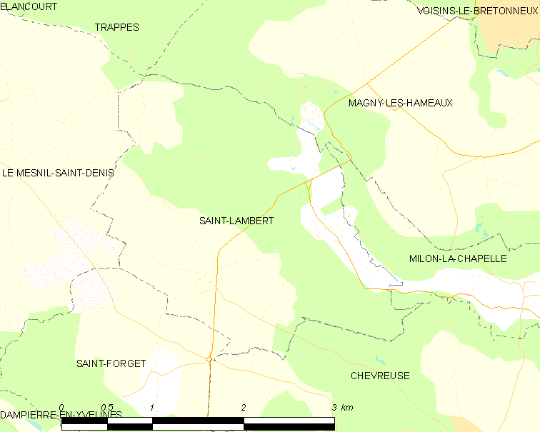 Map of French municipality Saint-Lambert